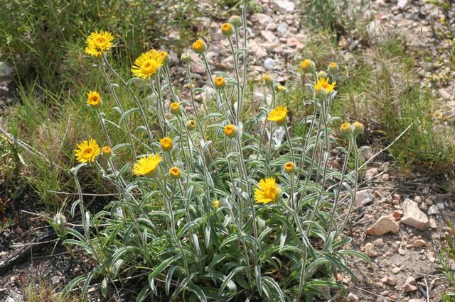 (en) Inula montana, a photography originating of the internet site The accord of the autor, H. Brisse, is here. (fr) Inule des montagnes (Inula montana), une photographie issue du site internet L'accord de l'auteur, H. Brisse, se situe ici.